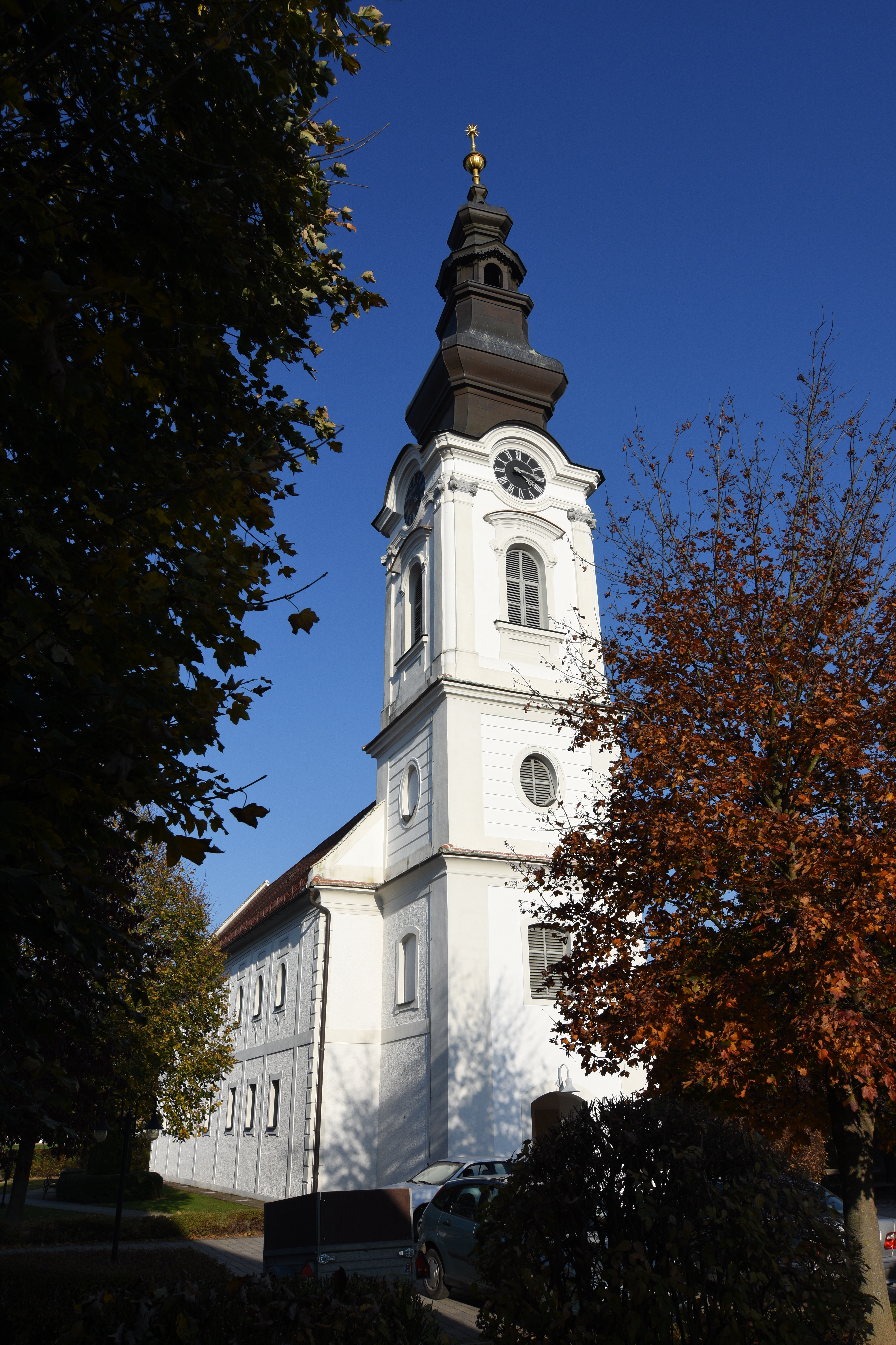 Reformierte Pfarrkirche Oberwart